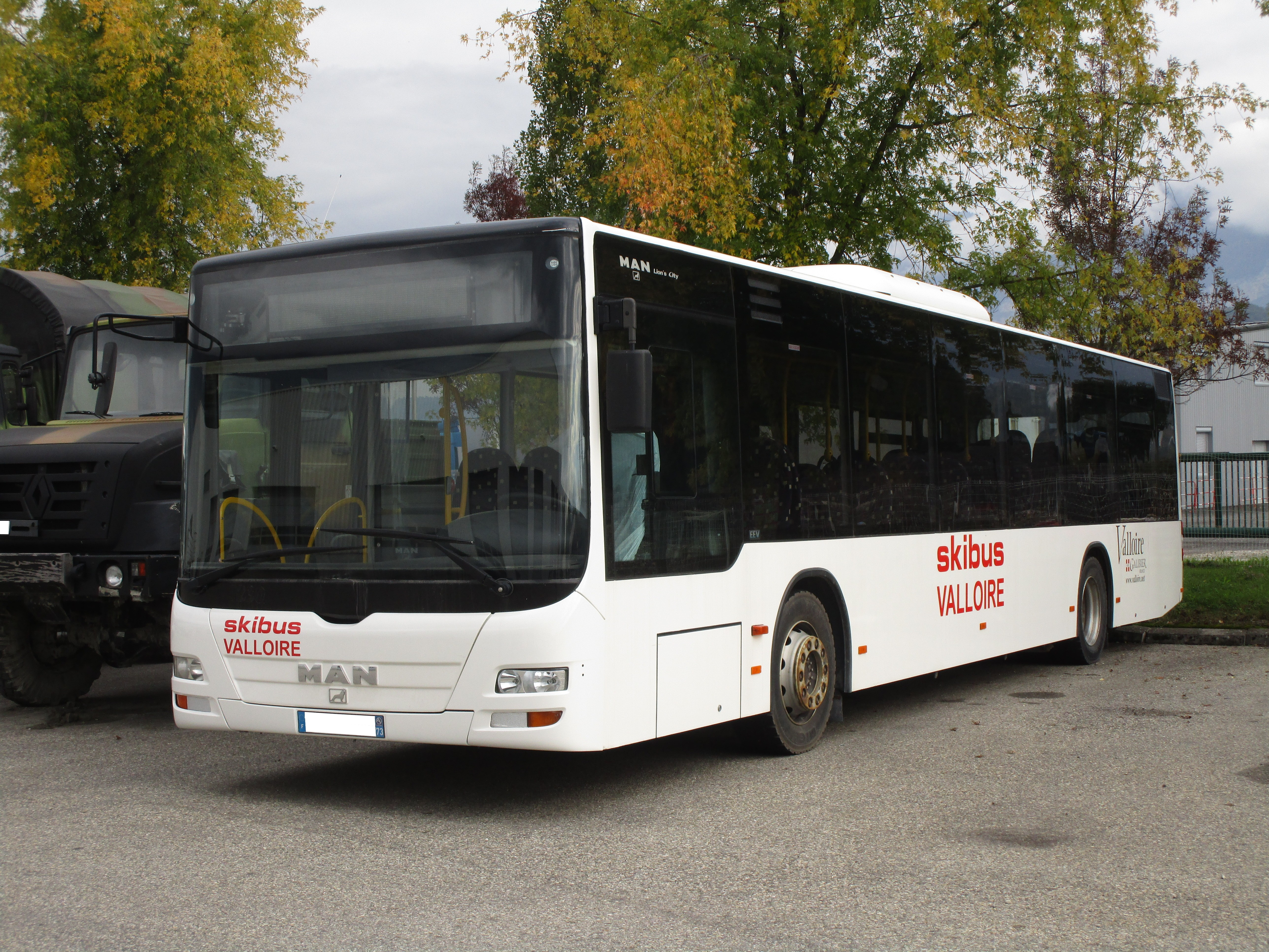 A bus MAN Lion's City LE of Skibus Valloire in the stable yard of the Garage Vasseur - Renault Trucks in Voglans on October 19, 2016.